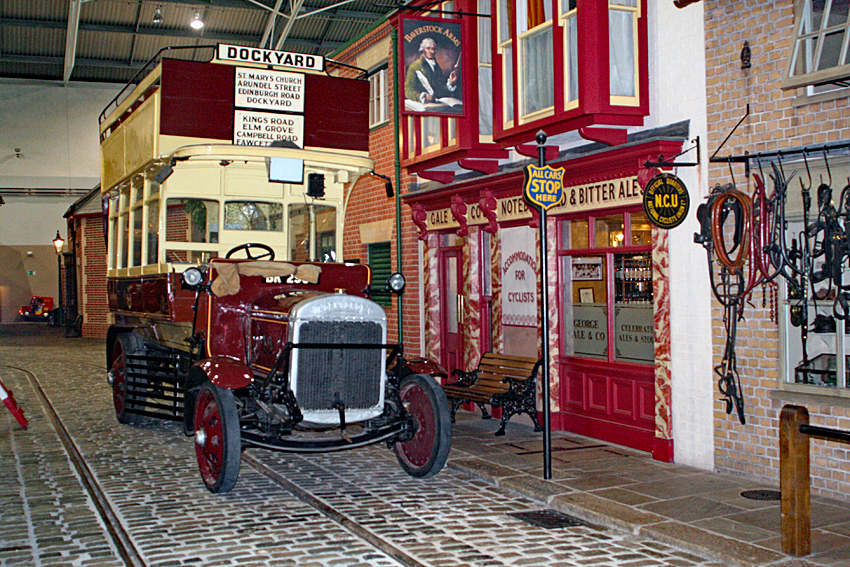 Thornycroft Type J bus in the Milestones Museum, Basingstoke. Ex Portsmouth Corporation Transport No 10 (BK 2986) dating from 1919.